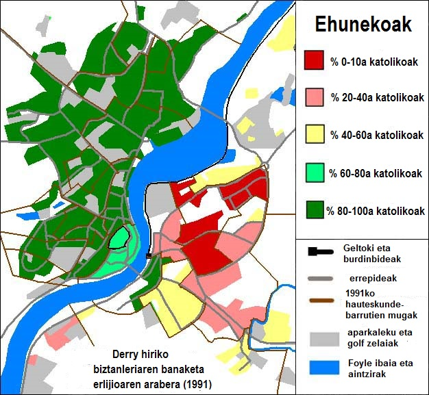 Map of 1991 Derry's religious distribution (in basque language).